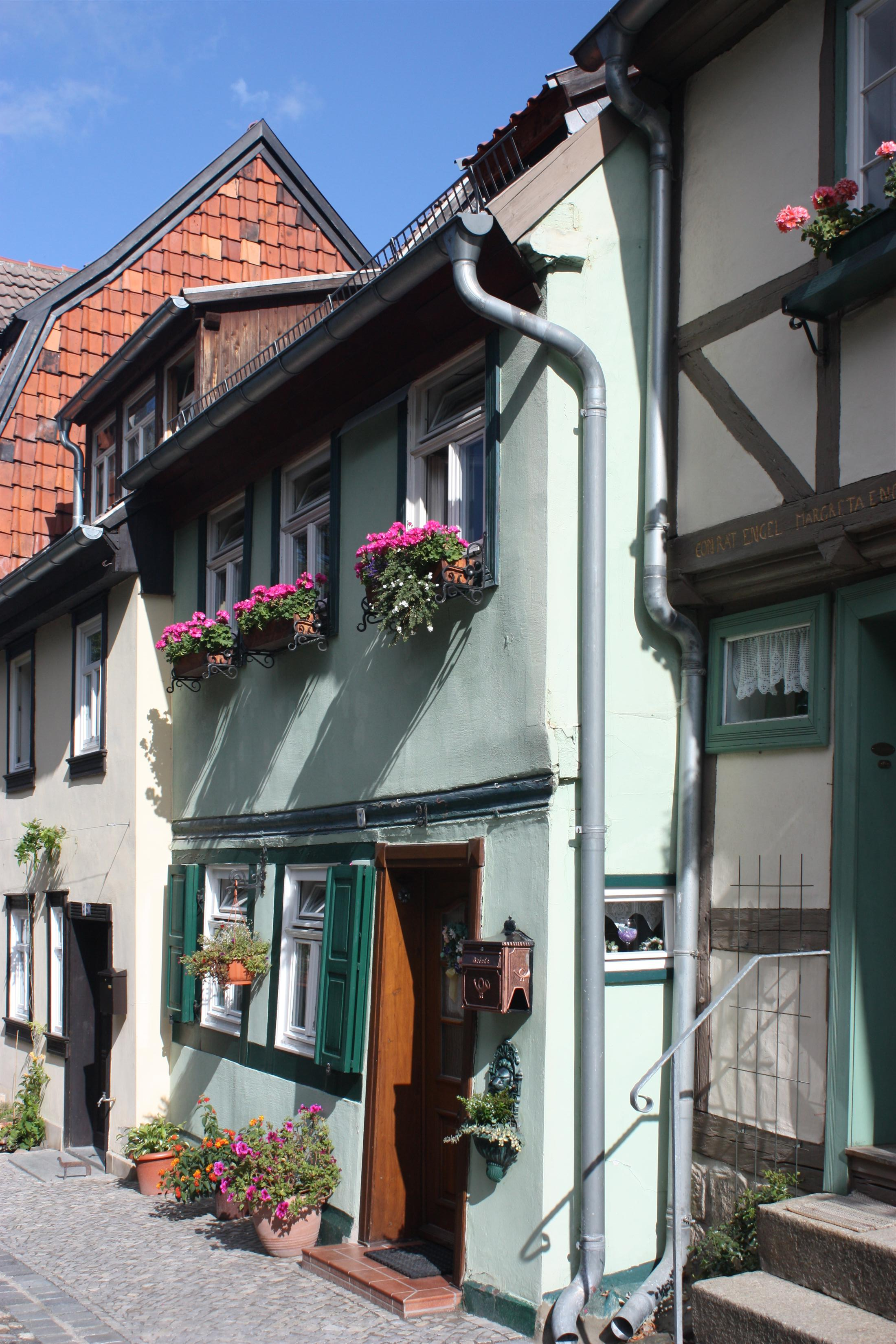 This is a photograph of an architectural monument.It is on the list of cultural monuments of Quedlinburg Quedlinburg Schloßberg